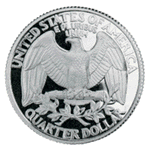 United States quarter dollar.